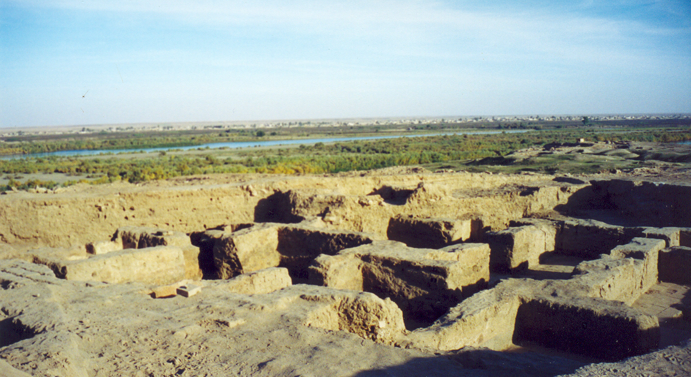 Ashur (Qal'at Sherqat) (Iraq)